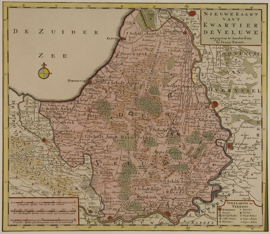 New map of the Kwartier De Veluwe (Netherlands)